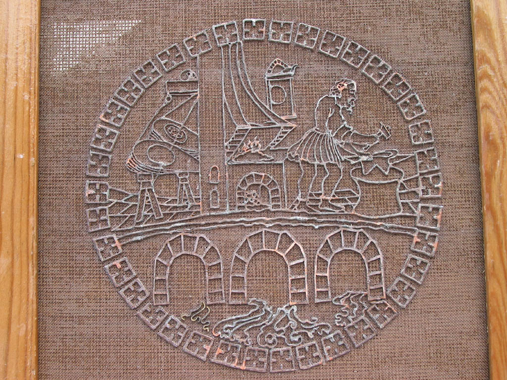 Festa Medivale di Monselice (Sept.) - The Art of Papermaking, screen with watersign